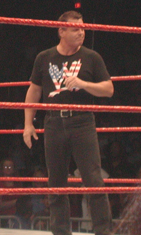 Jerry Lawler at a WWE Raw live event. Allstate Arena, Rosemont, IL, September 1en:2002.